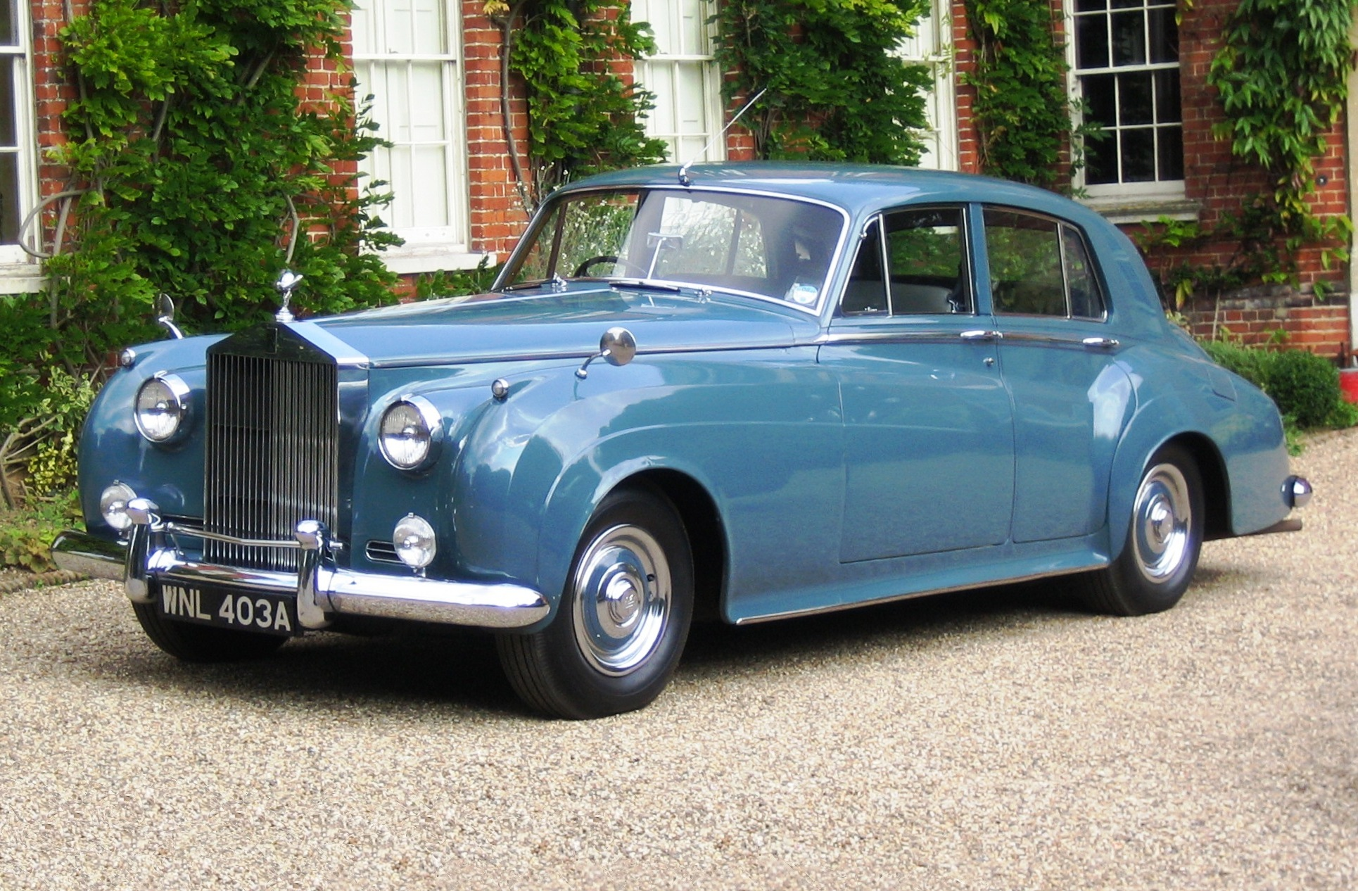 Rolls Royce Silver Cloud series I currently resident in north Essex